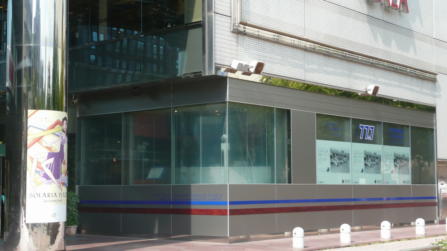 JOZZoAA-FM (Tenjin FM - Free Wave) Solaria Parkside Studio (Fukuoka, Japan - September 2008) Present Love FM (JOFW-FM, March 2011).